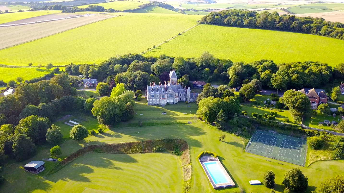 Aerial image of Sompting Abbotts Preparatory School in West Sussex